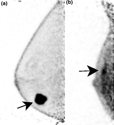 a A case with the same diagnosis with PUVmax and LTB1. The semiquantitative uptake is 10.52 for PUVmax and 34.89 for LTB1. Both PUVmax and LTB1 are higher than the cutoff calculated by the ROC curve in the present study, and the lesion is defined as malignant. Mammography shows an irregular mass in the fatty breast. Pathological result was invasive carcinoma. b A case with a different diagnosis with PUVmax and LTB1: a true positive for PUVmax and a false-negative for LTB1. Semiquantitative uptake is 3.10 for PUVmax and 1.68 for LTB1. PUVmax is higher than the cutoff calculated by the ROC curve in the present study, but LTB1 is lower. PUVmax suggests a malignant lesion, but LTB1 suggests a benign lesion. Mammography shows clustered amorphous calcifications in heterogeneously dense breast tissue. Mammography, ultrasound, and MRI reveal malignancy. Pathological result was DCIS